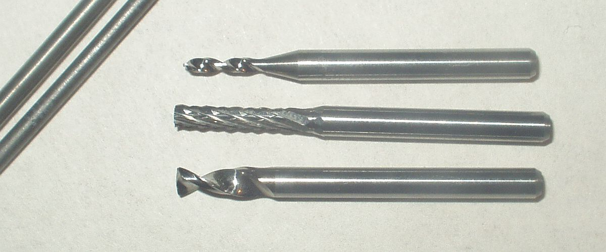 Solid tungsten carbide (PCB bits). To the left are samples of the major elemental constituents, a tungsten rod and a carbon rod.